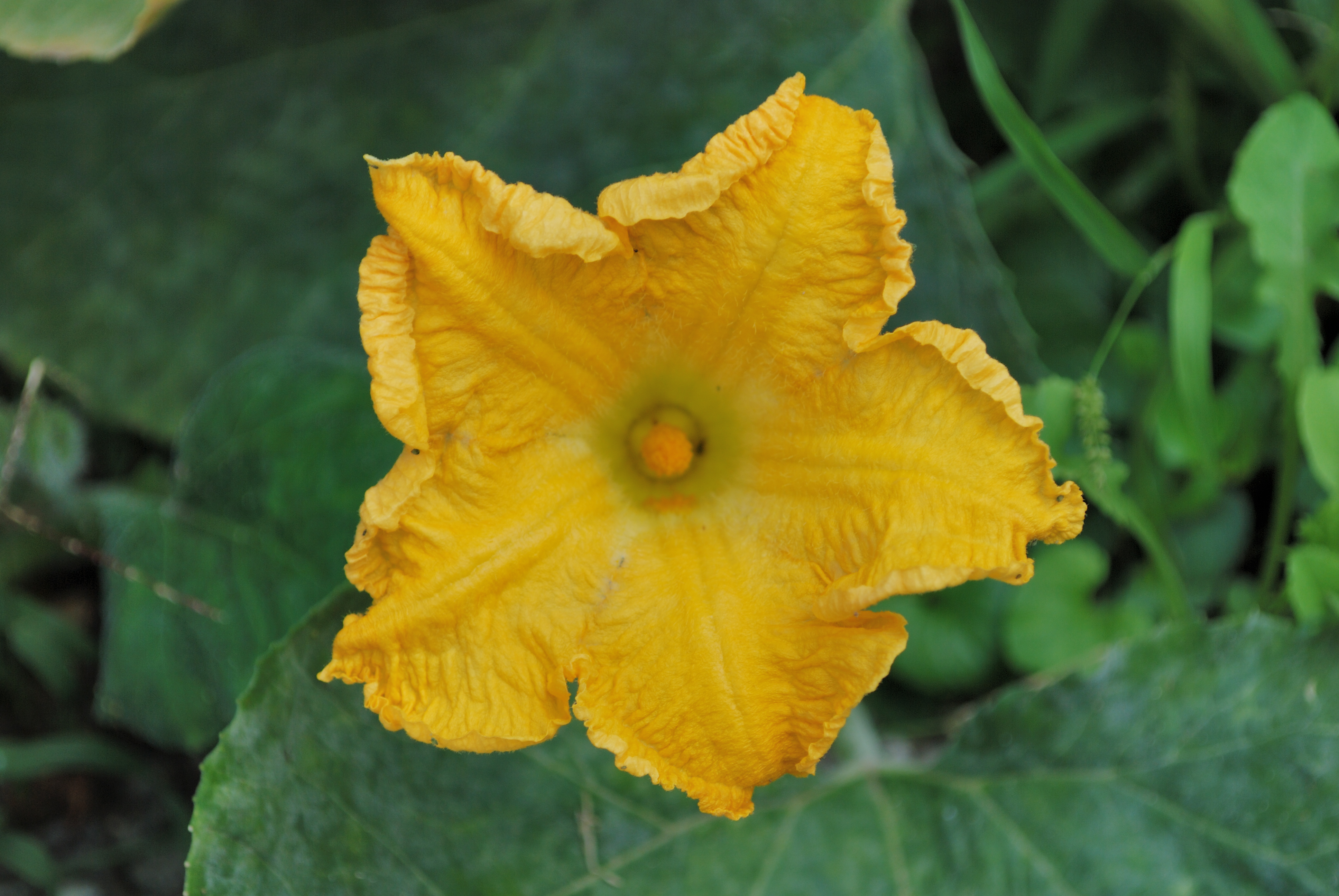 Picture of a Flower of Pumpkin